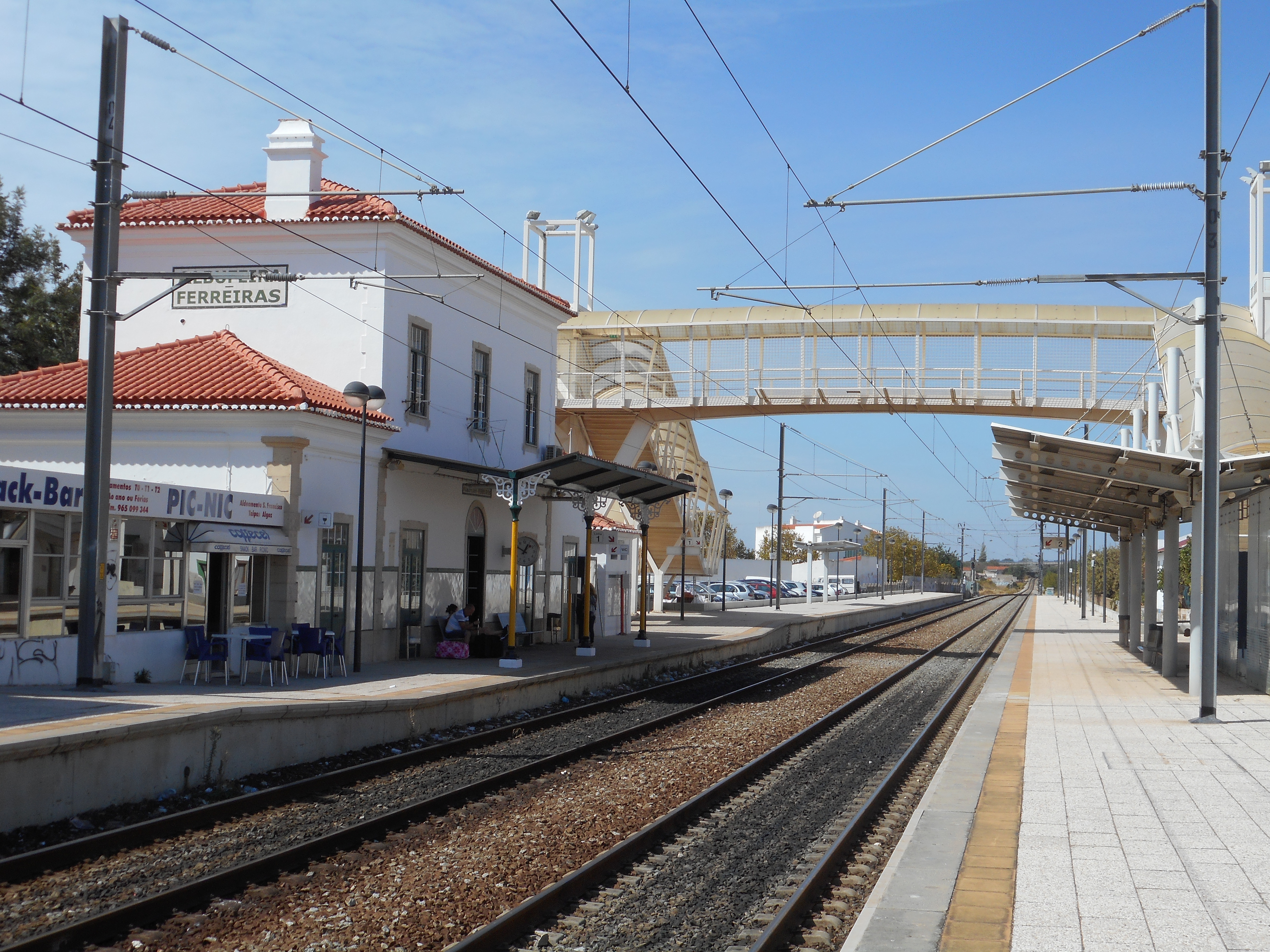 The Albufeira/Ferreira railway station, located in the village of Ferreira, Albufeira, Algarve,Portugal. This view is from the north side of the railway lines